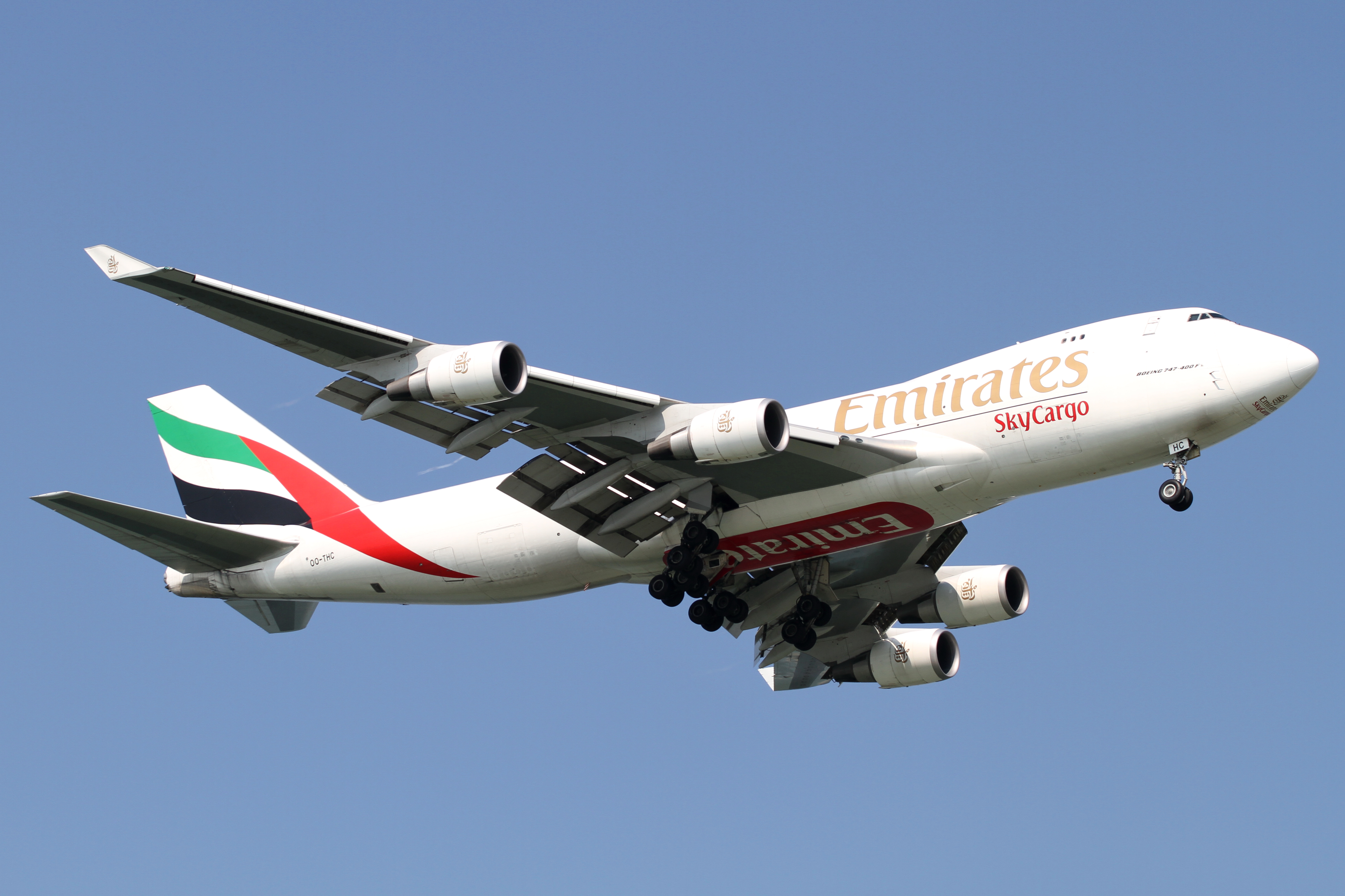 Singapore Changi Airport, Boeing 747-4HA/F/ER c/n:35235, Emirates